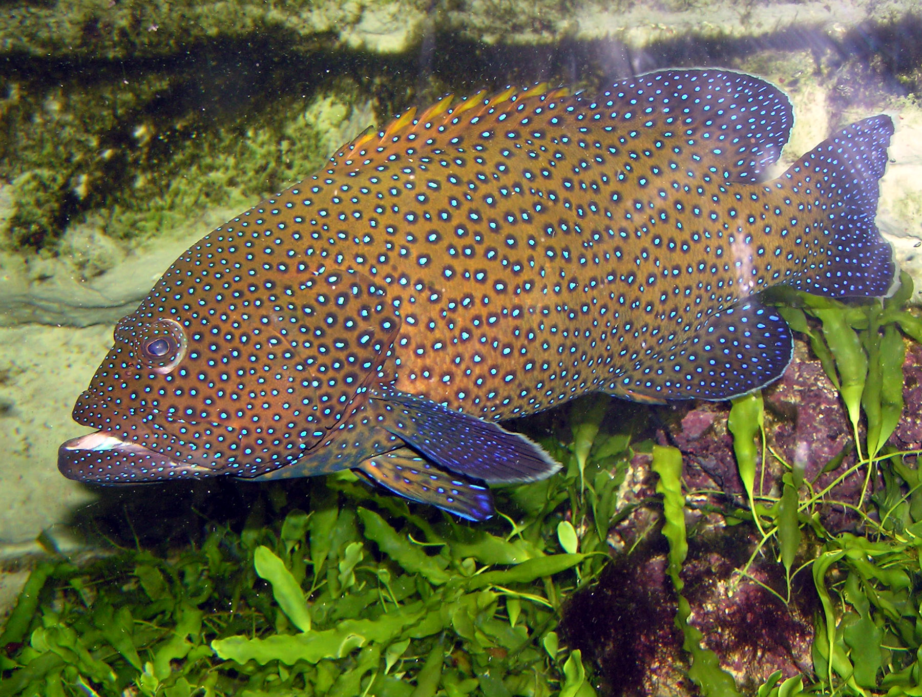 Blue-spotted grouper (Cephalopholis argus) at Bristol Zoo, Bristol, England.